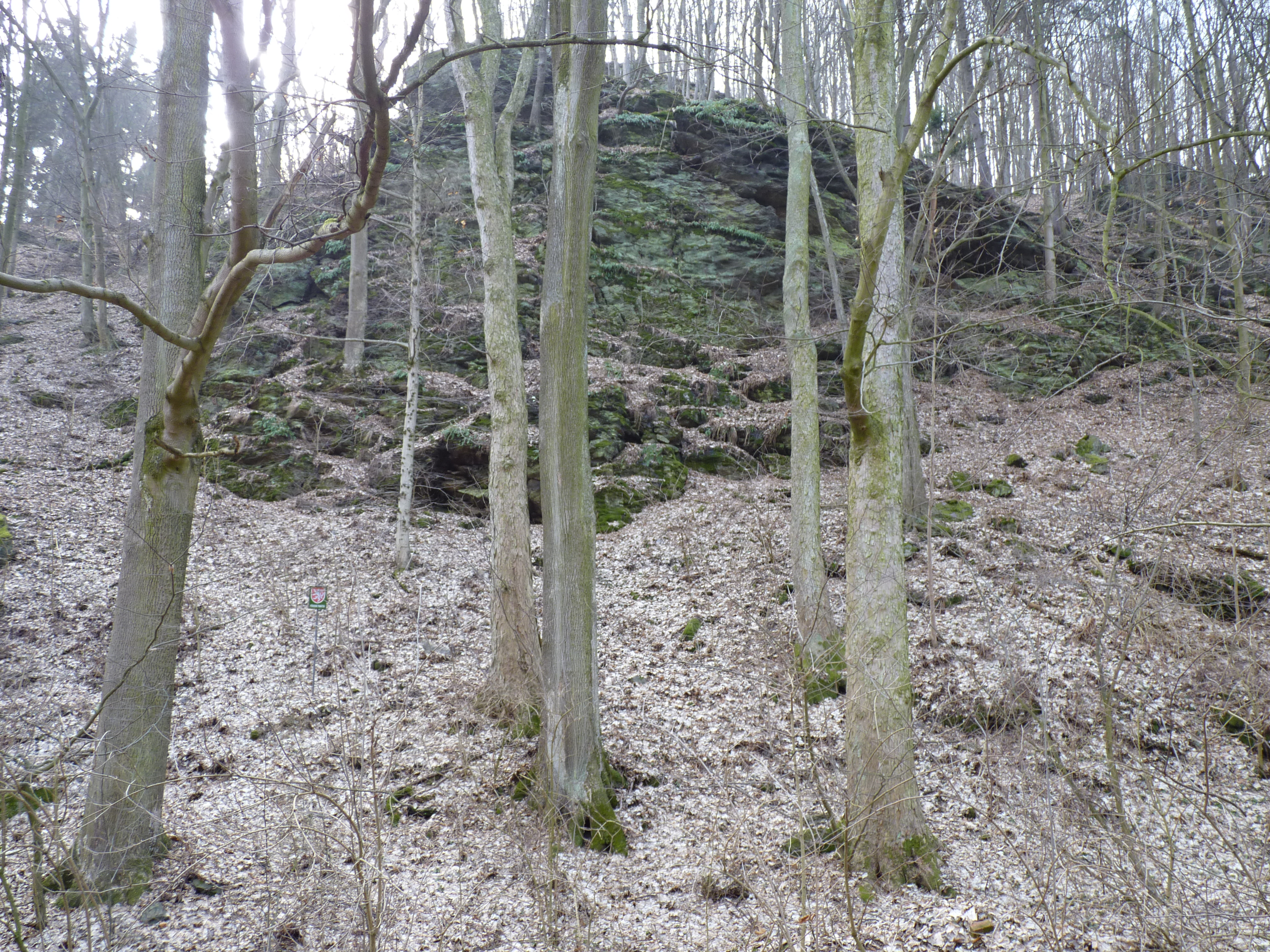 Lužichová, nature reserve in Brno-Country District, South Moravian Region, Czech Republic Project: Chráněná území